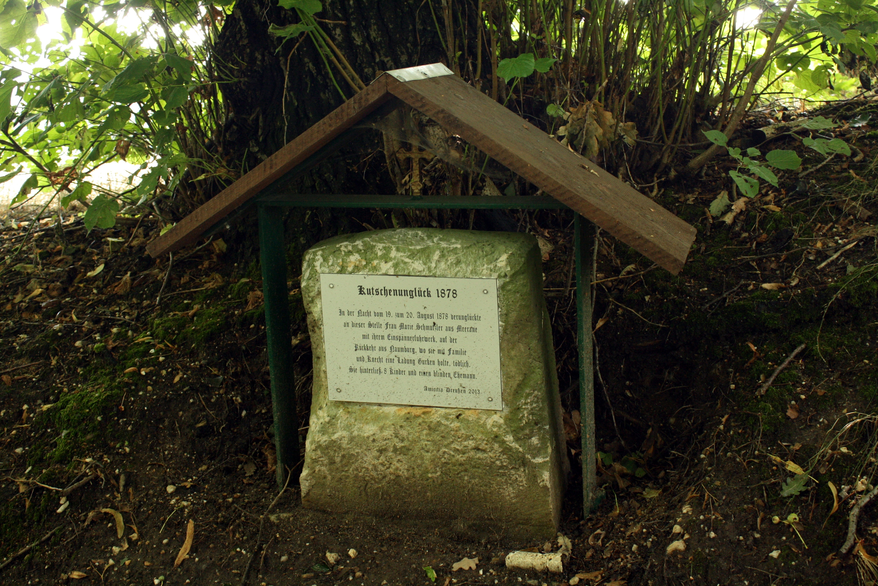 Memorial of an accident in Ponitz-Zschöpel, near Altenburg/Thuringia